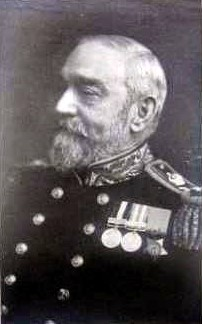 Sydney Eardley-Wilmot An admiral's memories: Sixty-five years afloat and ashore. Sampson Low, Marston & Co., London, 1927.